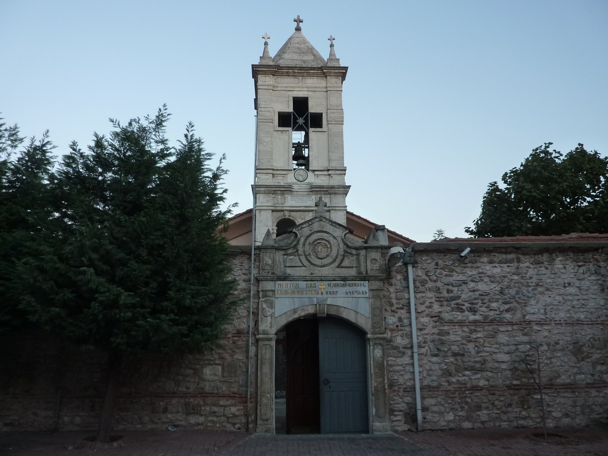 The Armenian church, in Istanbul's Kumkapi neighborhood, across the street from the offices of the Armenian Patriarchate of Constantinople.